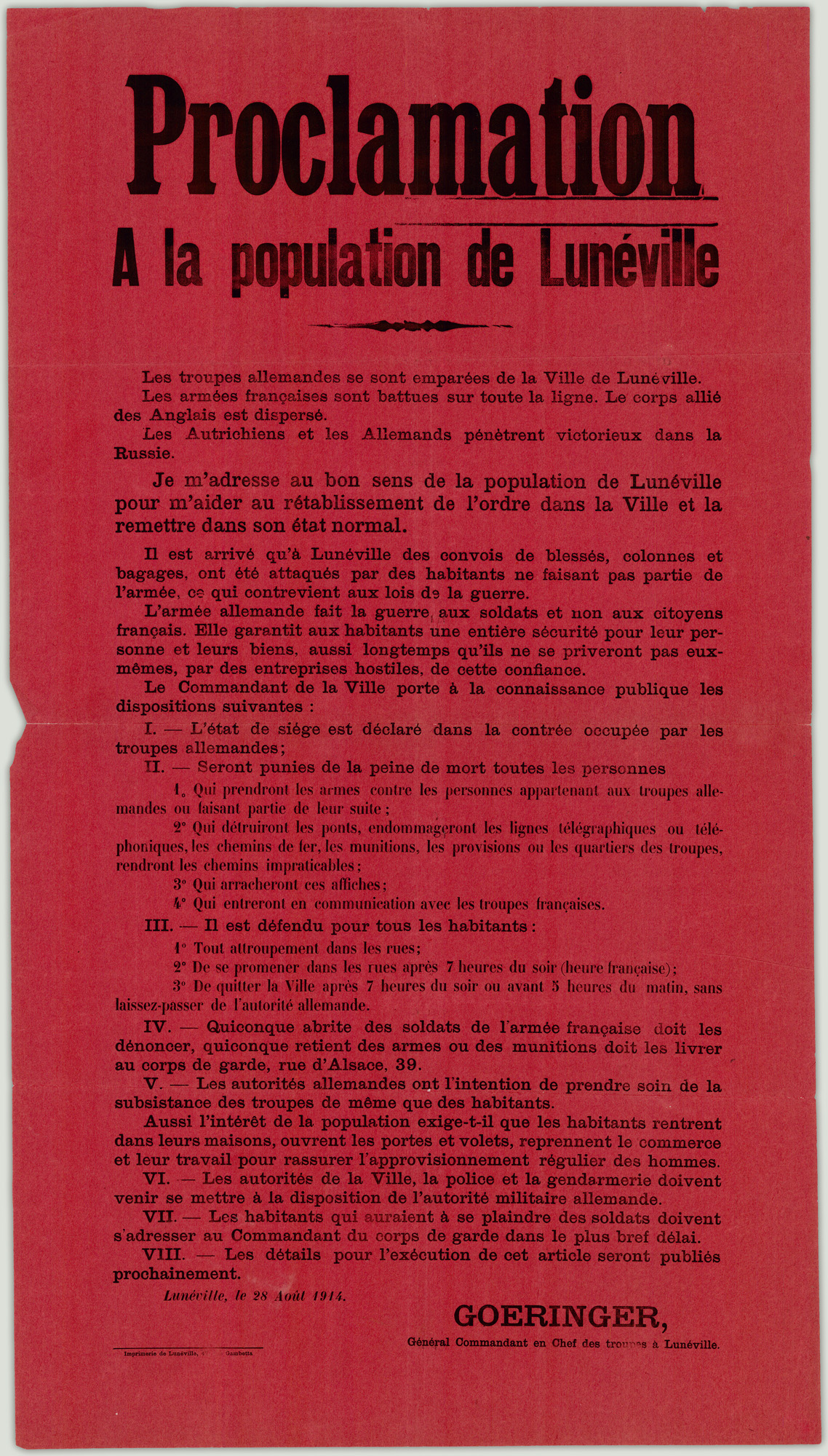 No known copyright restrictions. Please credit UBC Library as the image source. For more information, see Alternative Title: Proclamation population of Lunéville. German troops seized the city of Lunéville. Creator: Goeringer, Général Commandant en Chef des troupes à Lunéville Date Created: 1914 Source: Original Format: University of British Columbia. Library. Rare Books and Special Collections. World War I Poster and Broadside Collection. Permanent URL